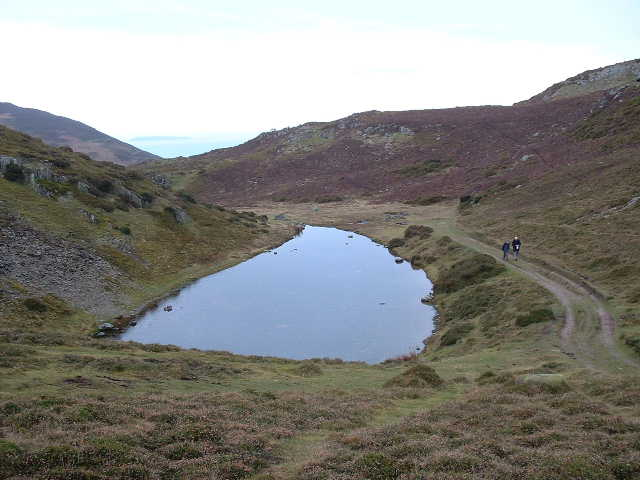 Mountain lake. Looking North towards the Sychnant Pass